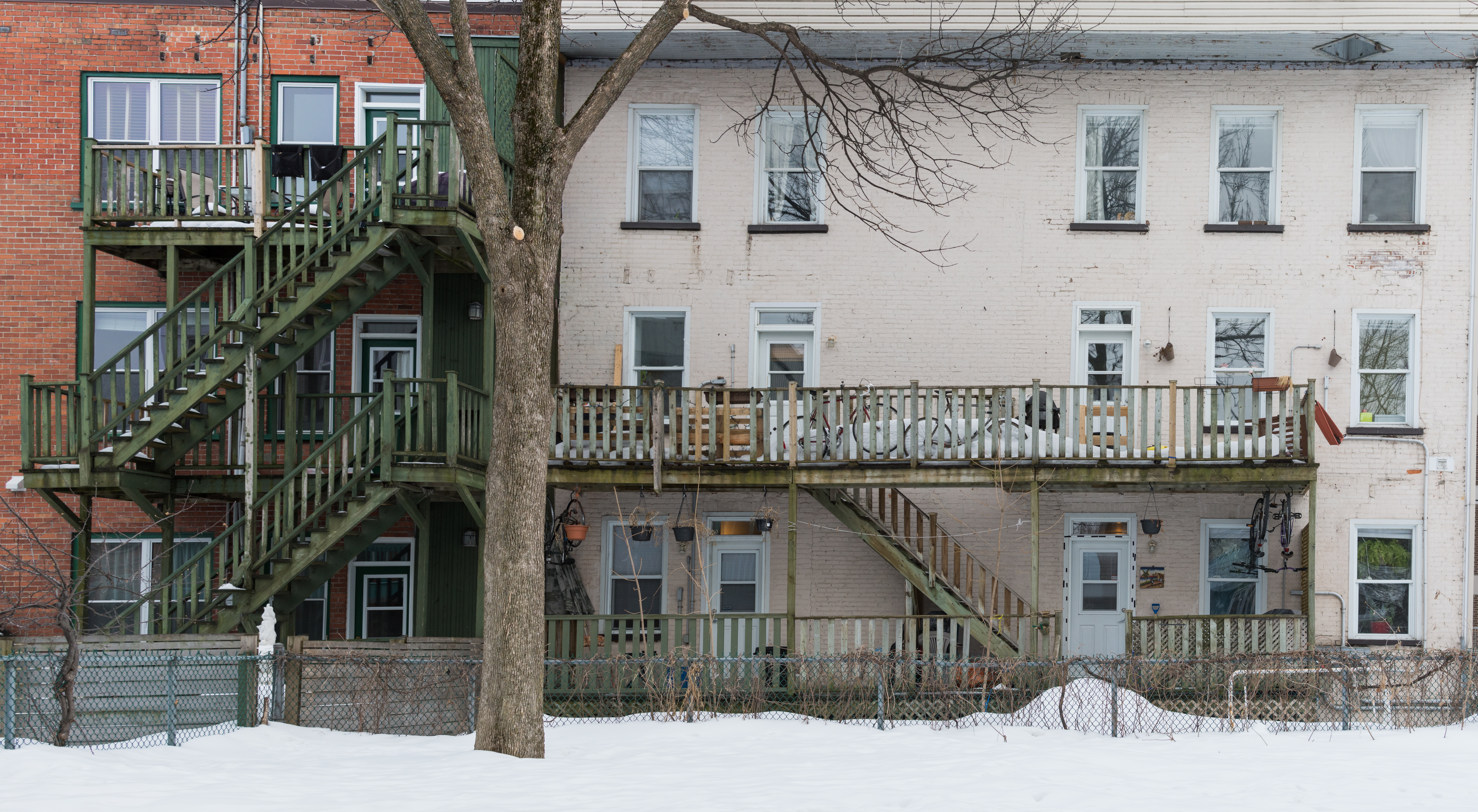 Back side of houses in Québec city, Québec State, Canadá